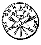 738 woodcuts illustrating the work A Dictionary of Roman Coins, Republican and Imperial (1889). To identify a coin please look at the filename to identify a page number, and check the Dictionary on numiswiki